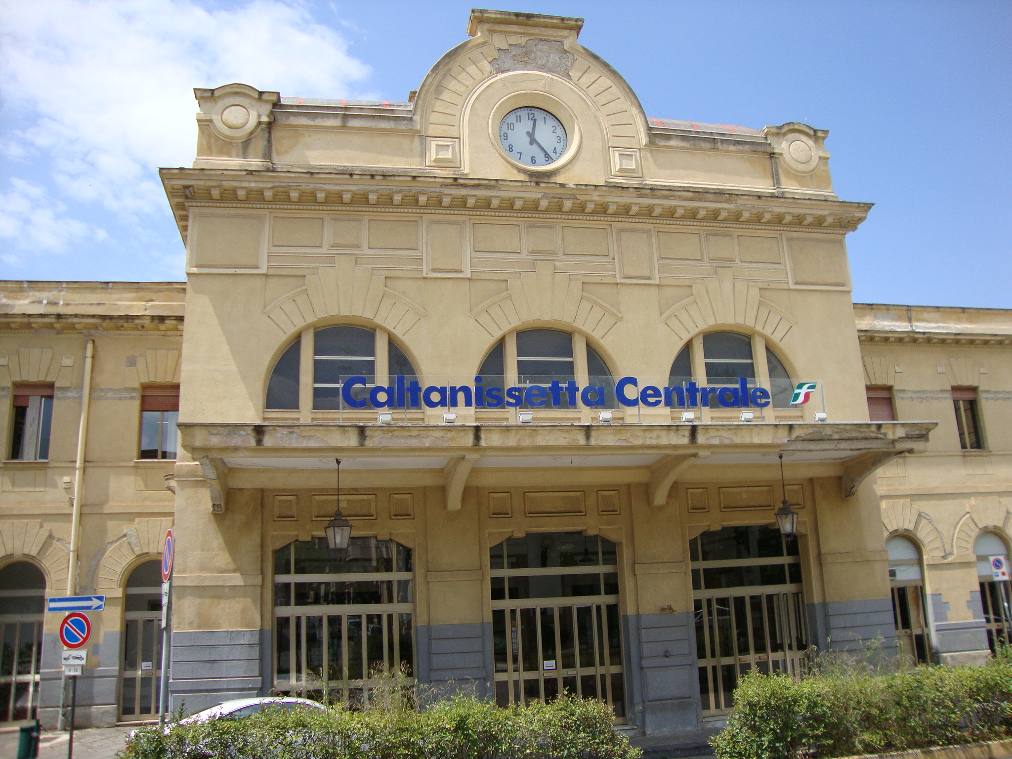 Wiew of the railway station of Caltanissetta Centrale